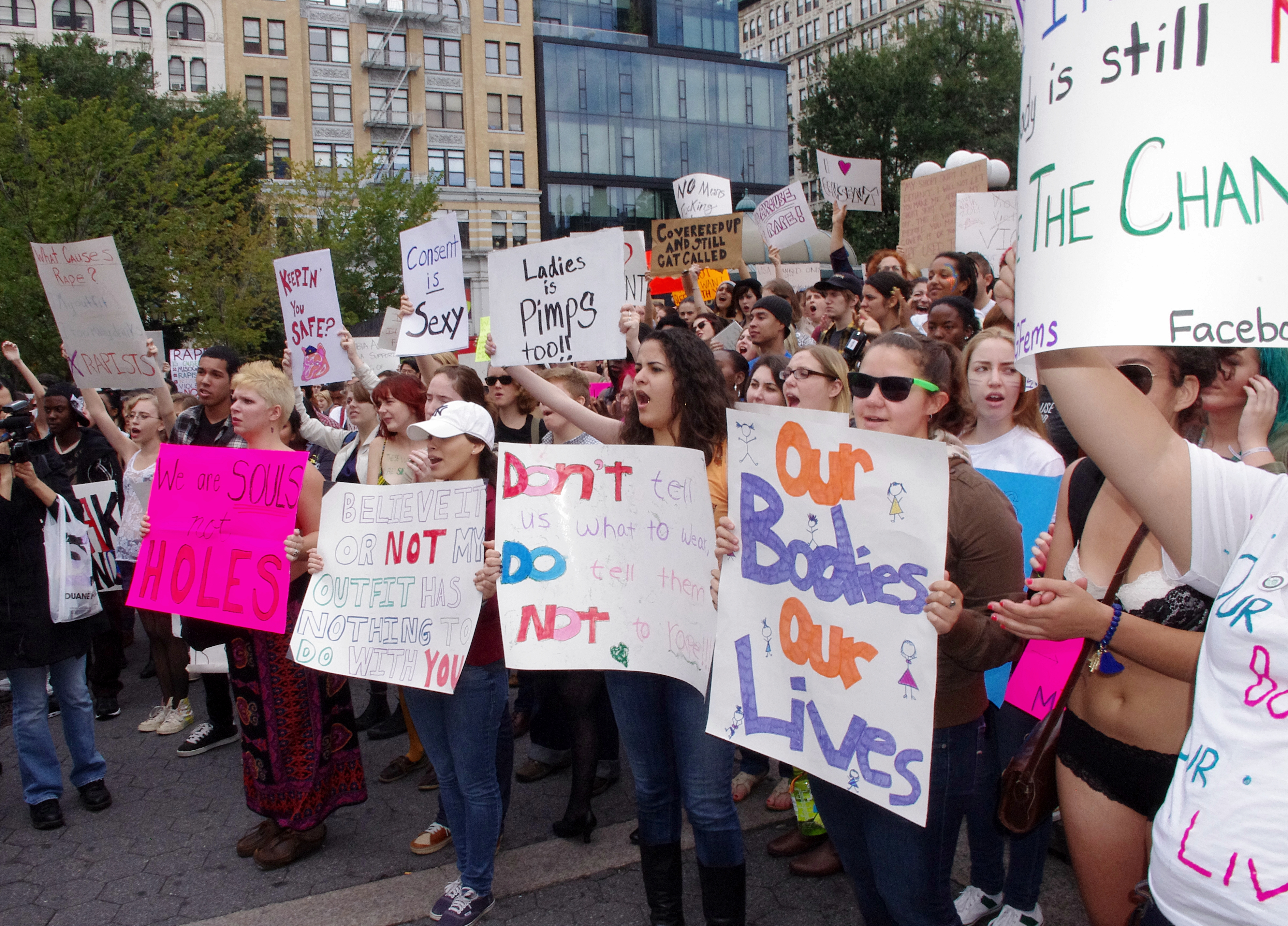 Photos from SlutWalk NYC on Saturday in Manhattan's Union Square.